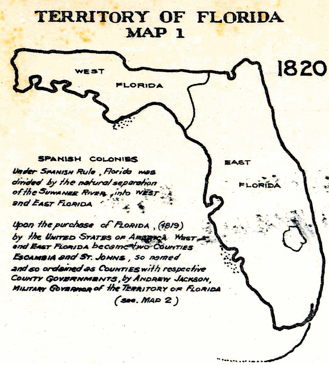 Upon the purchase of Florida, (1819) by the United States of America, West Florida and East Florida became two counties: Escambia County and St Johns County, so named and so ordained as counties with respective county governments by Andrew Jackson, Military Governor of the Territory of Florida.